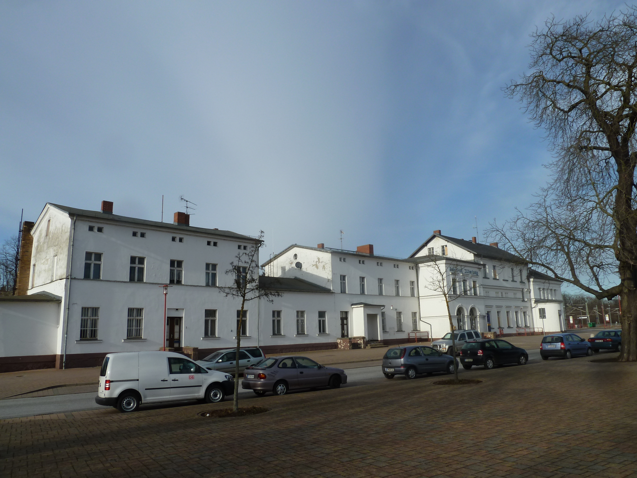 Jüterbog railway station, the station building is a cultural heritage